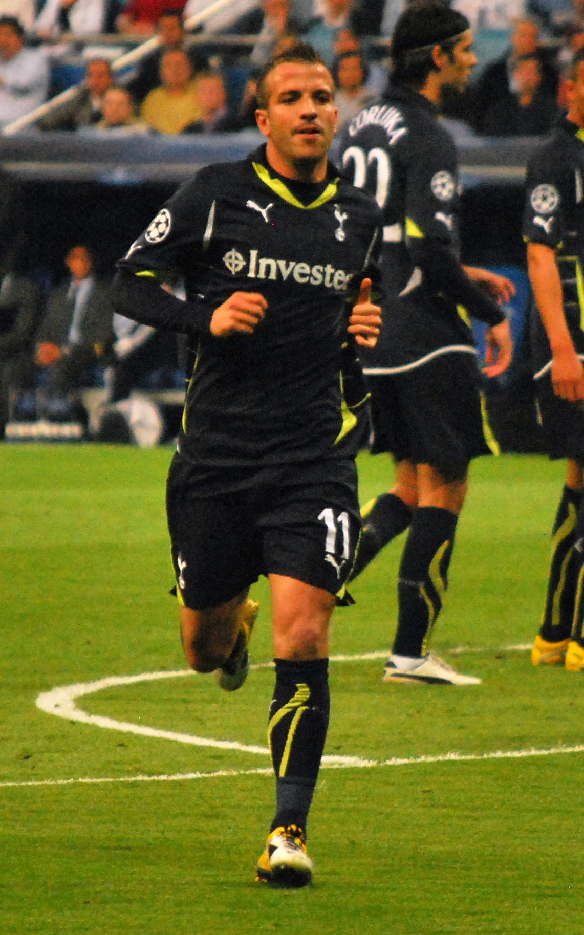 Dutch football player Rafael van der Vaart while playing for Tottenham Hotspur FC